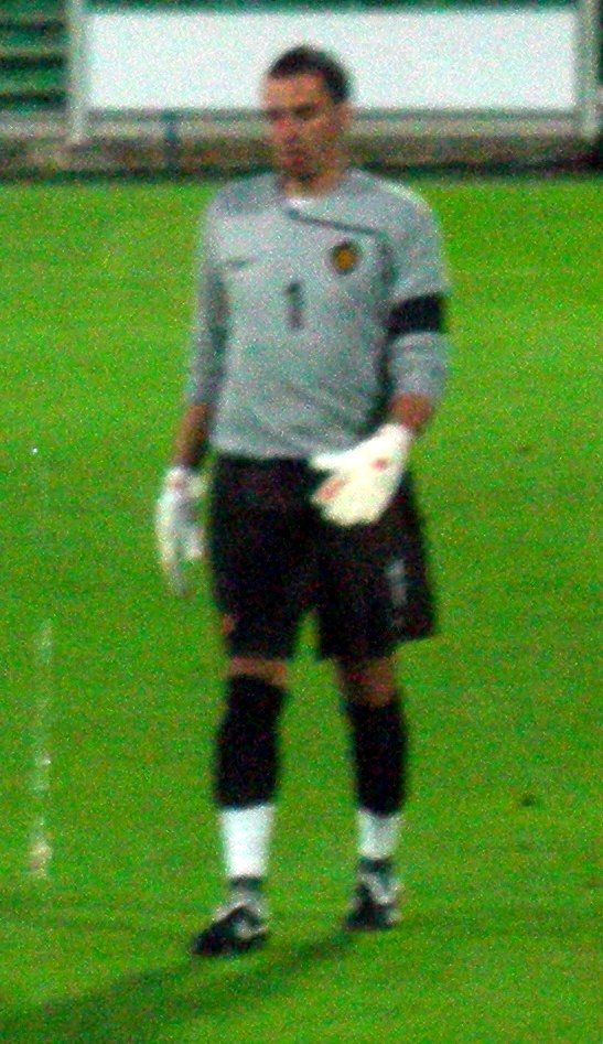 Player photo, made during the friendly football match Italy vs Belgium, played May 30, 2008 in Florence (Italy)